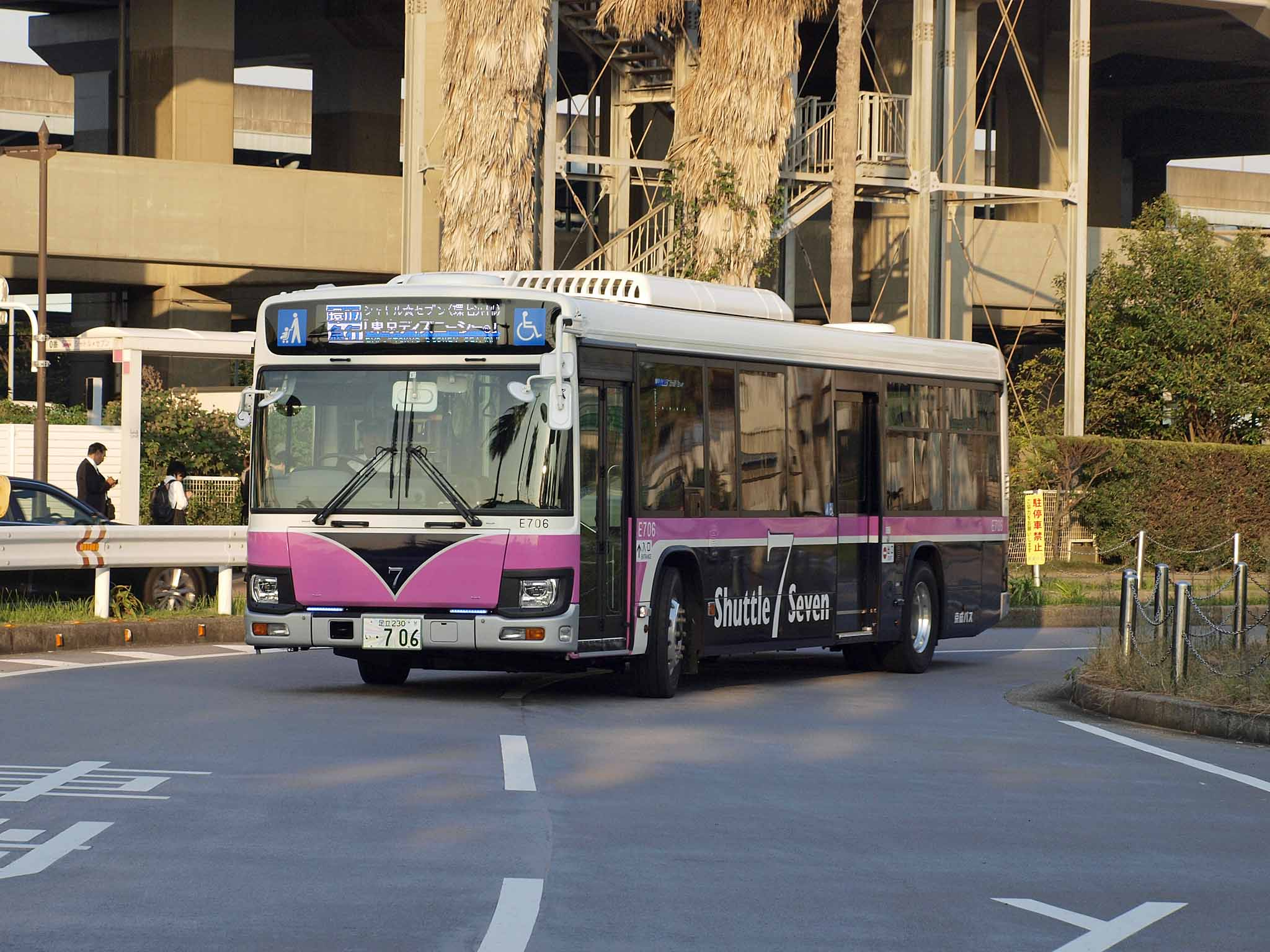 Fleet of Keisei Bus, for Shuttle Seven born in 2017 Model: Isuzu Erga LV290Q License plate: TKA230 I0706 Place:Kasai Rinkai Koen Station, Edogawa Ward, Tokyo Japan